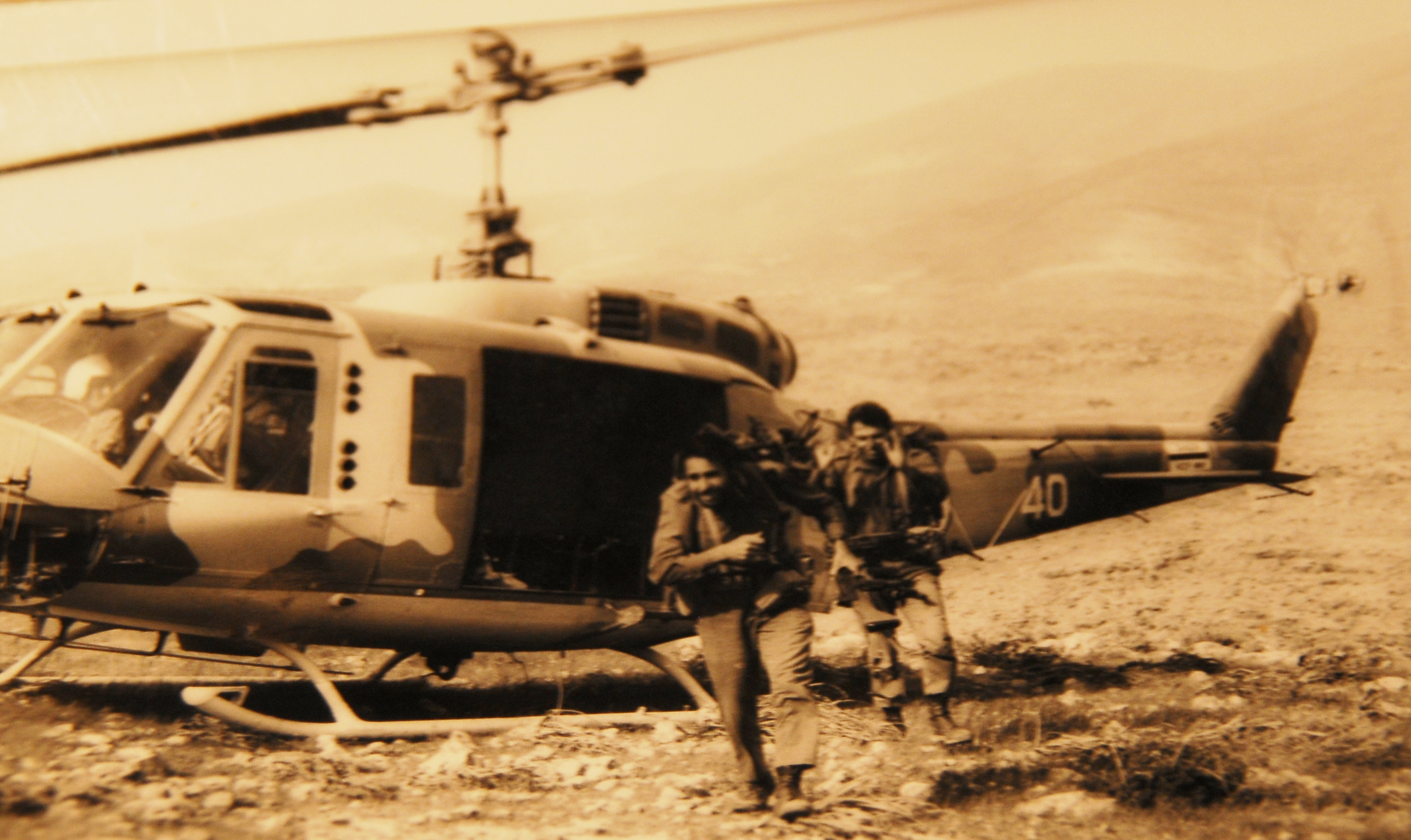 Israel Defense Forces